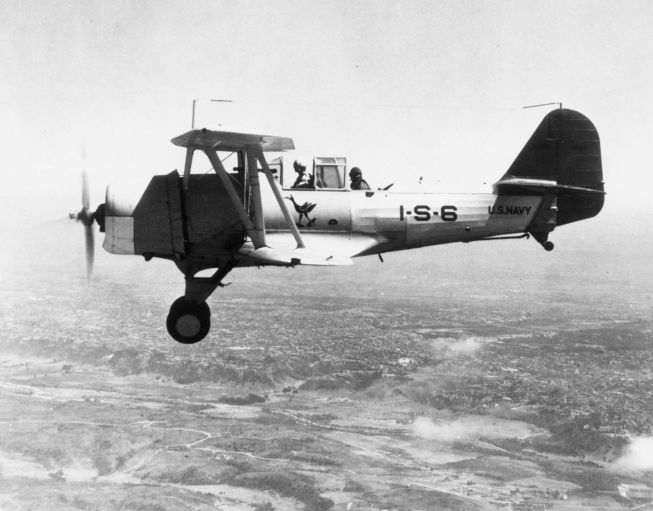 A U.S. Navy Vought SBU-1 of scouting squadron VS-1B from the aircraft carrier USS Ranger (CV-4) in the late 1930s.